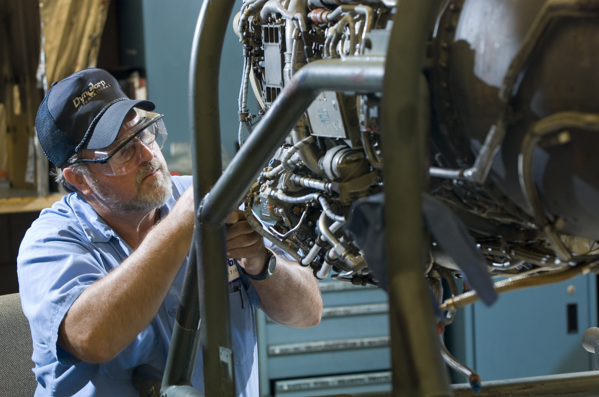 This is an image of a DynCorp employee with aviation support